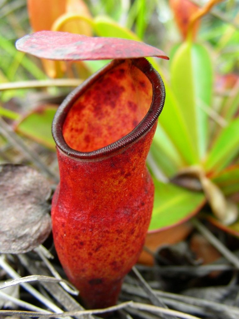 Nepenthes pervillei pitcher, Seychelles